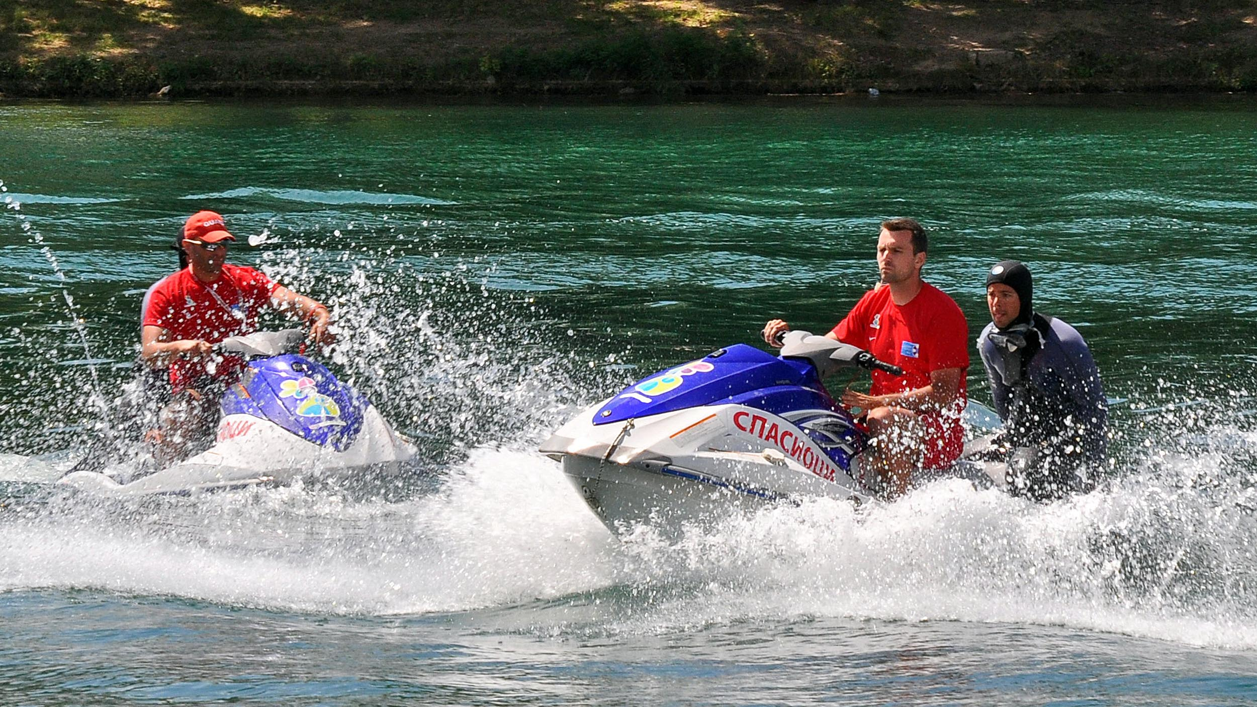 Spasavanje skuterima